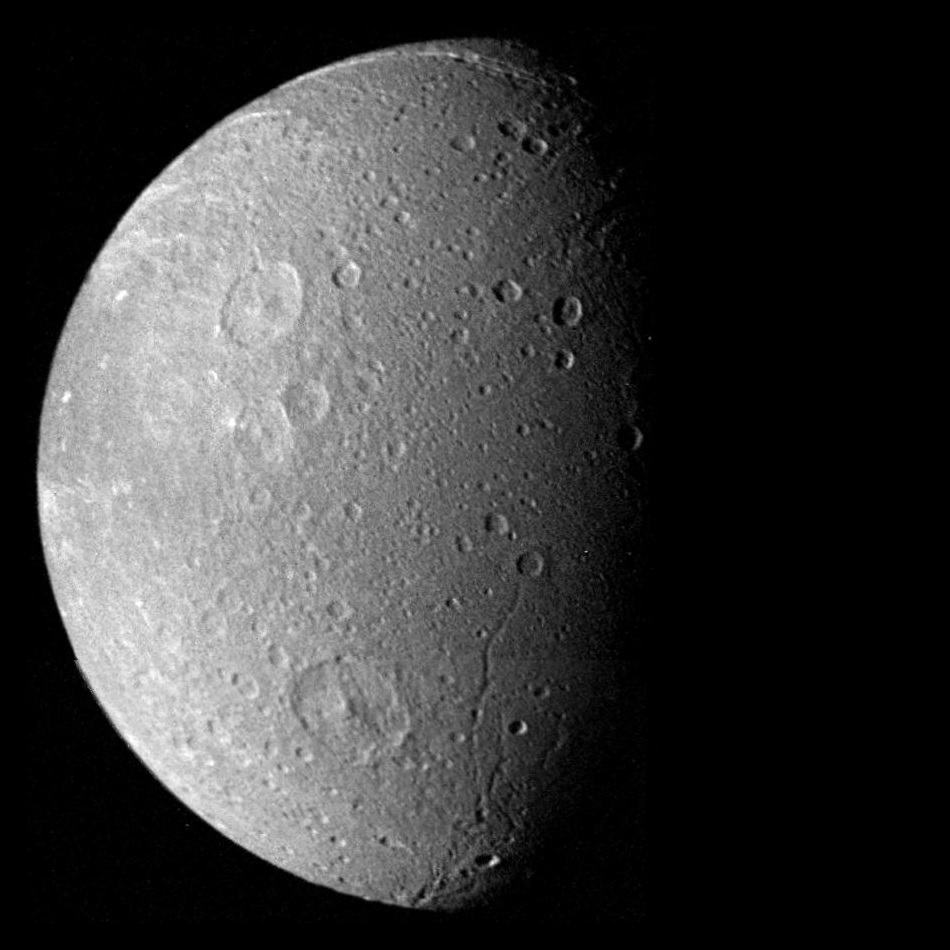 This picture of Dione was take by Voyager 1 from a range of 162,000 kilometers on November 12, 1980. Many impact craters -- the record of the collision of cosmic debris -- are shown, the largest crater is less than 100 kilometers (62 miles) in diameter and shows a well-developed central peak. Bright rays represent material ejected from other impact craters. Sinuous valleys probably formed by faults break the moon's icy crust.